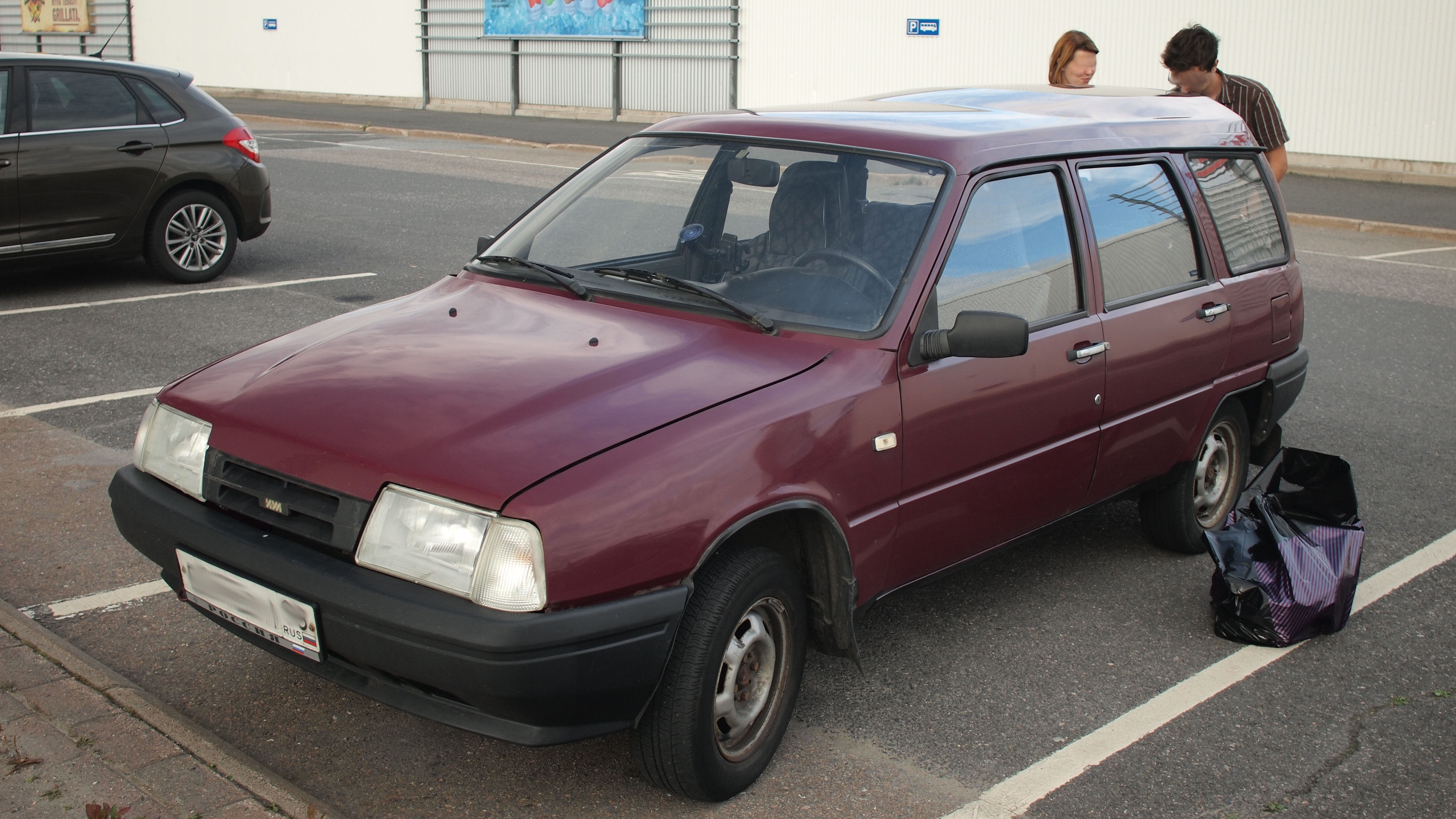 IZH Fabula (ИЖ 21261)